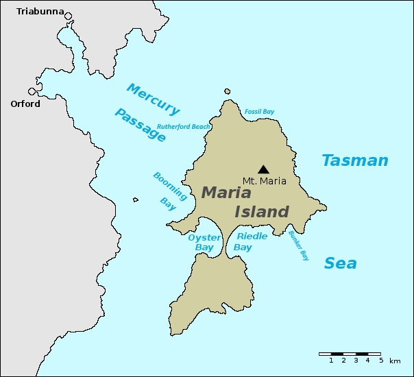 Maria island map edited